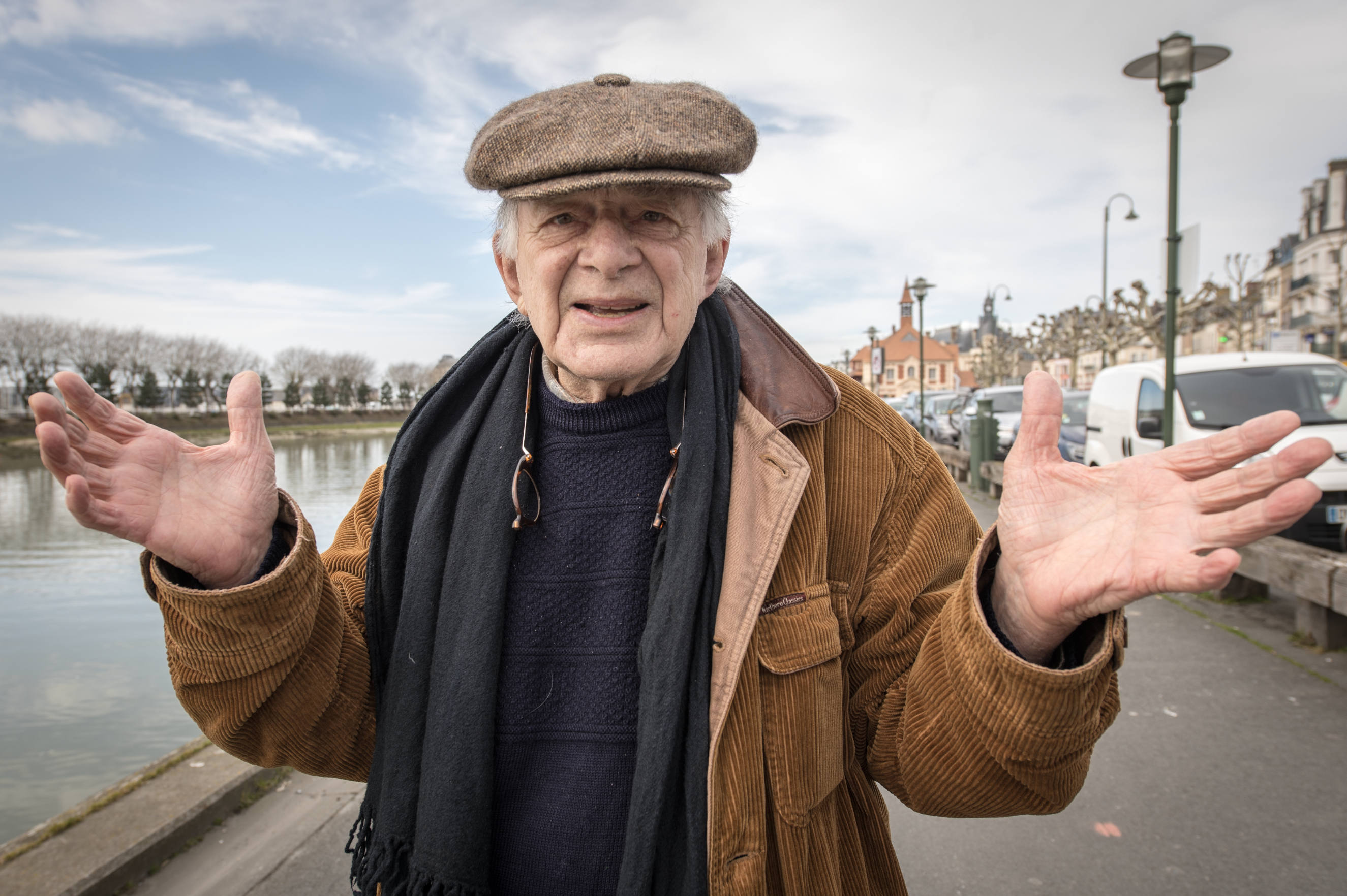 Award-winning cinematographer Ricardo Aronovich in an interview with Eduardo Montes-Bradley in Trouville-sur-mer, Normandy, France.